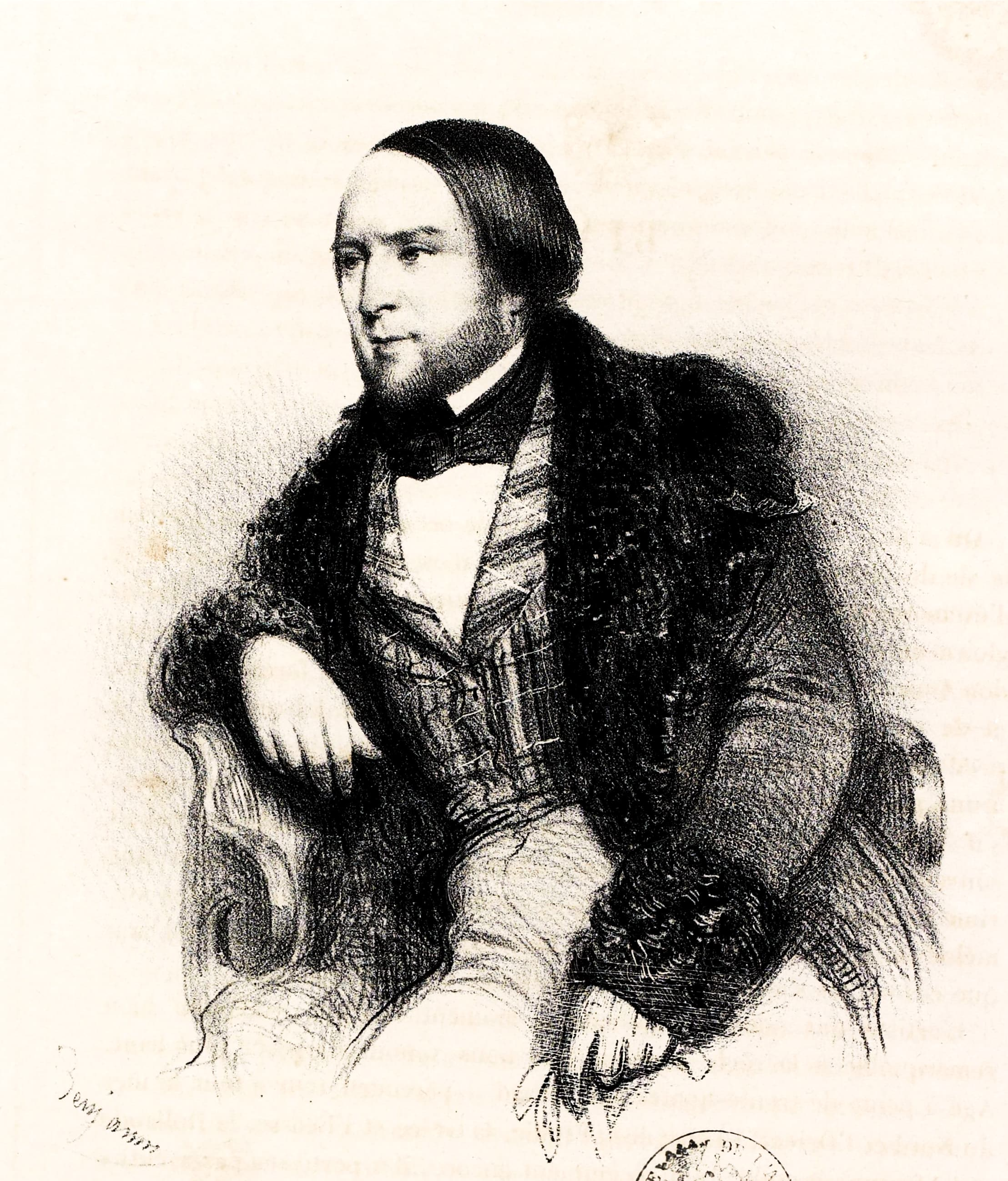 Drawing of François-Auguste Biard (1798-1882), French painter